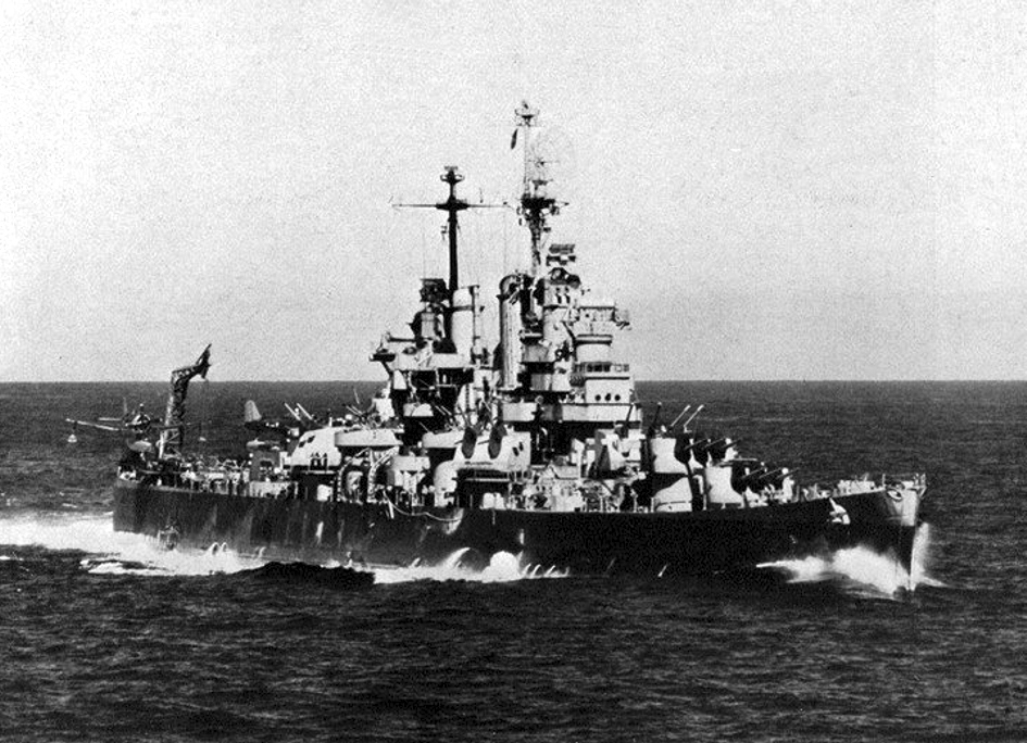 The U.S. Navy light cruiser USS Oklahoma City (CL-91) underway. She is painted in Measure 22 Camouflage.